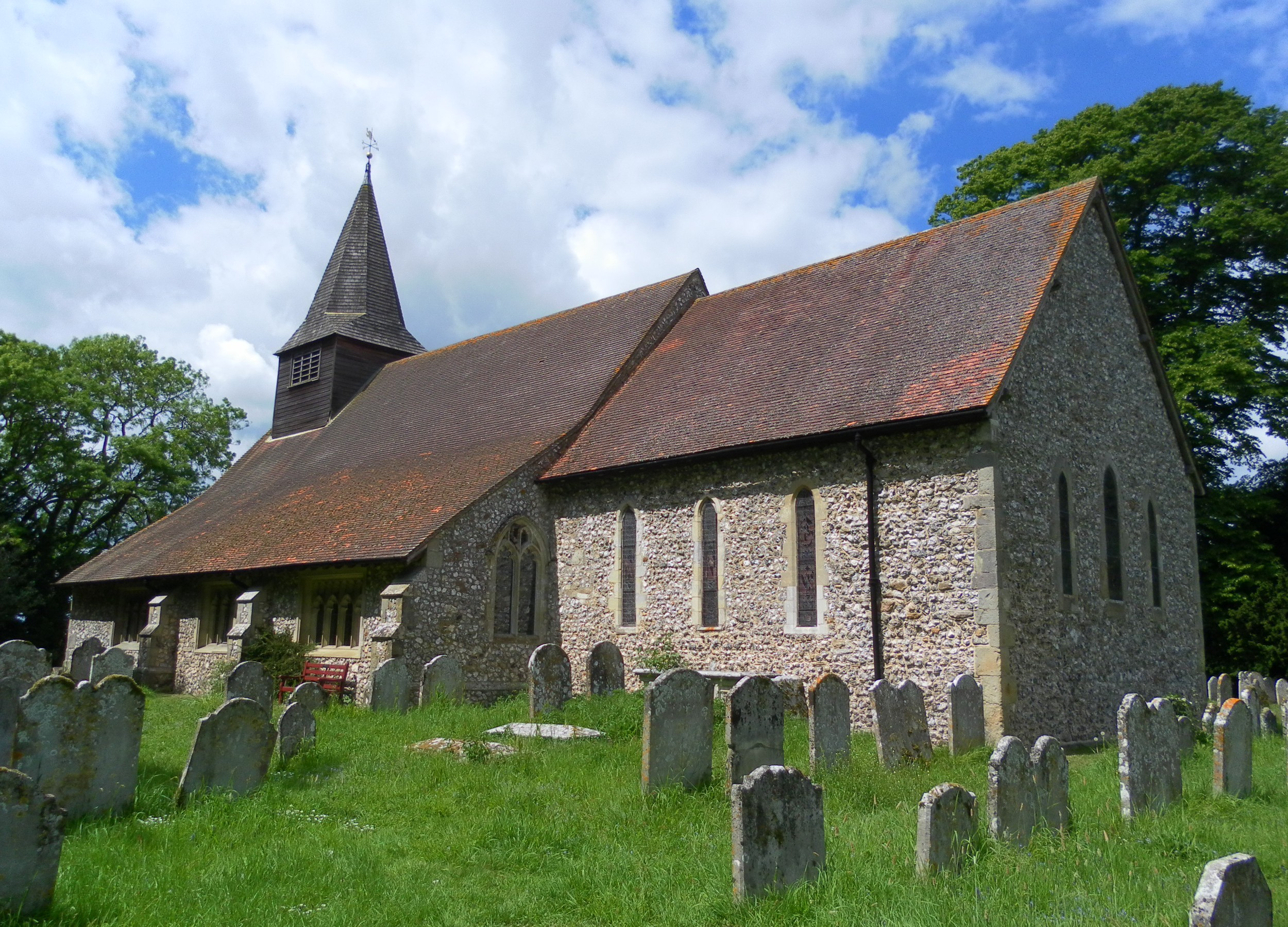 St Mary's Church, Walberton, Arun District, West Sussex, England. The ancient parish church of Walberton. Listed at Grade I by English Heritage (NHLE Code 1274629)